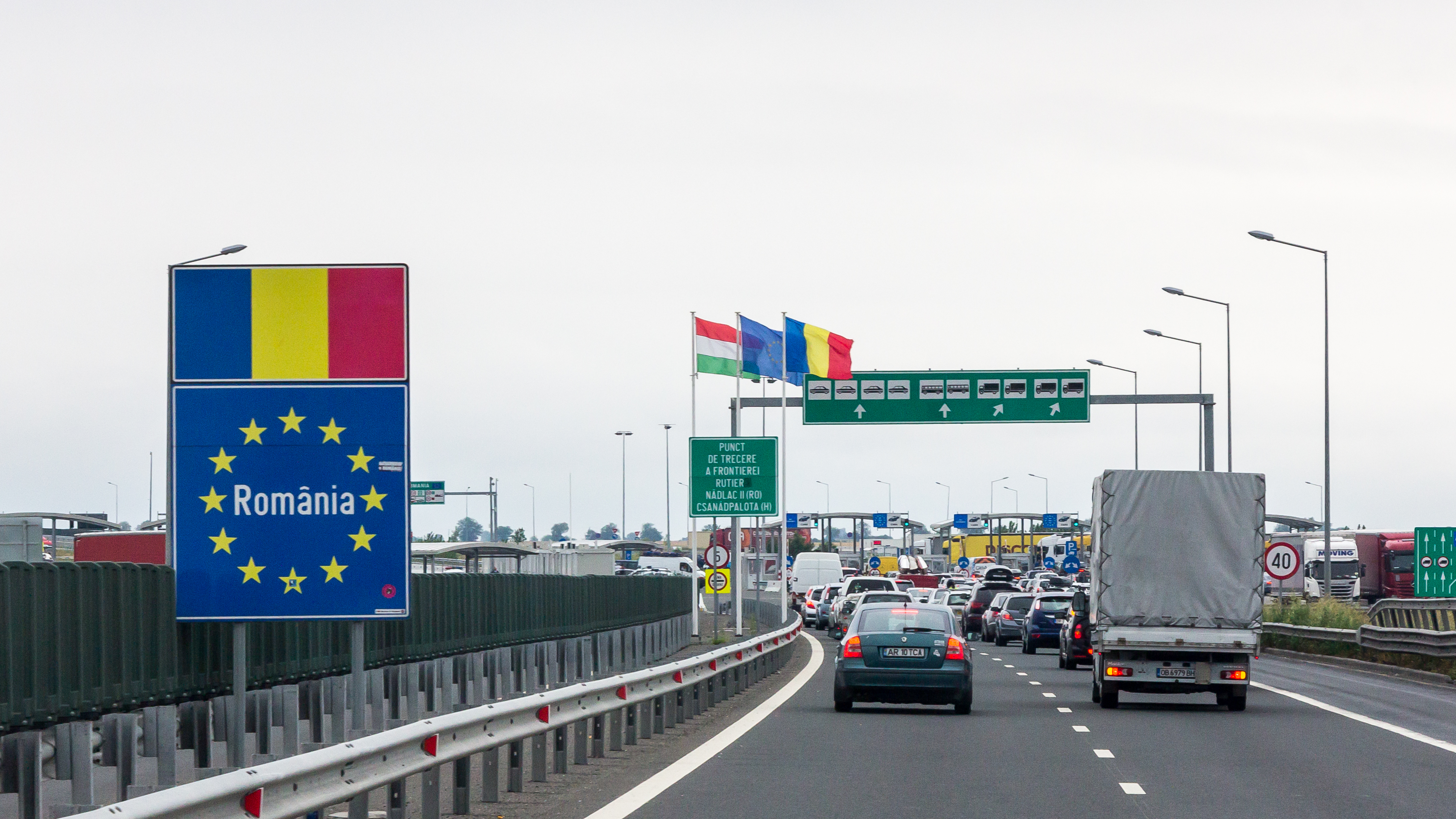 Border checkpoint Nădlac - Nagylak - Romanian side - Autostrada A1